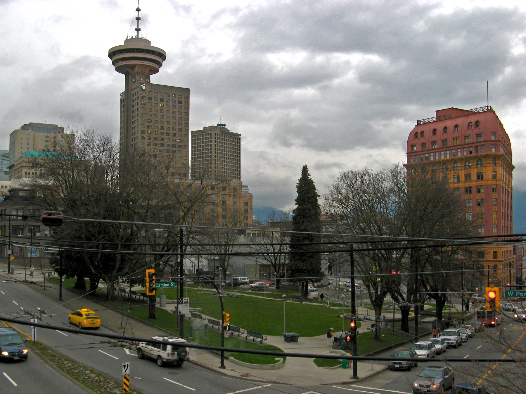 Victory Square, Vancouver, Canada. Taken by me.